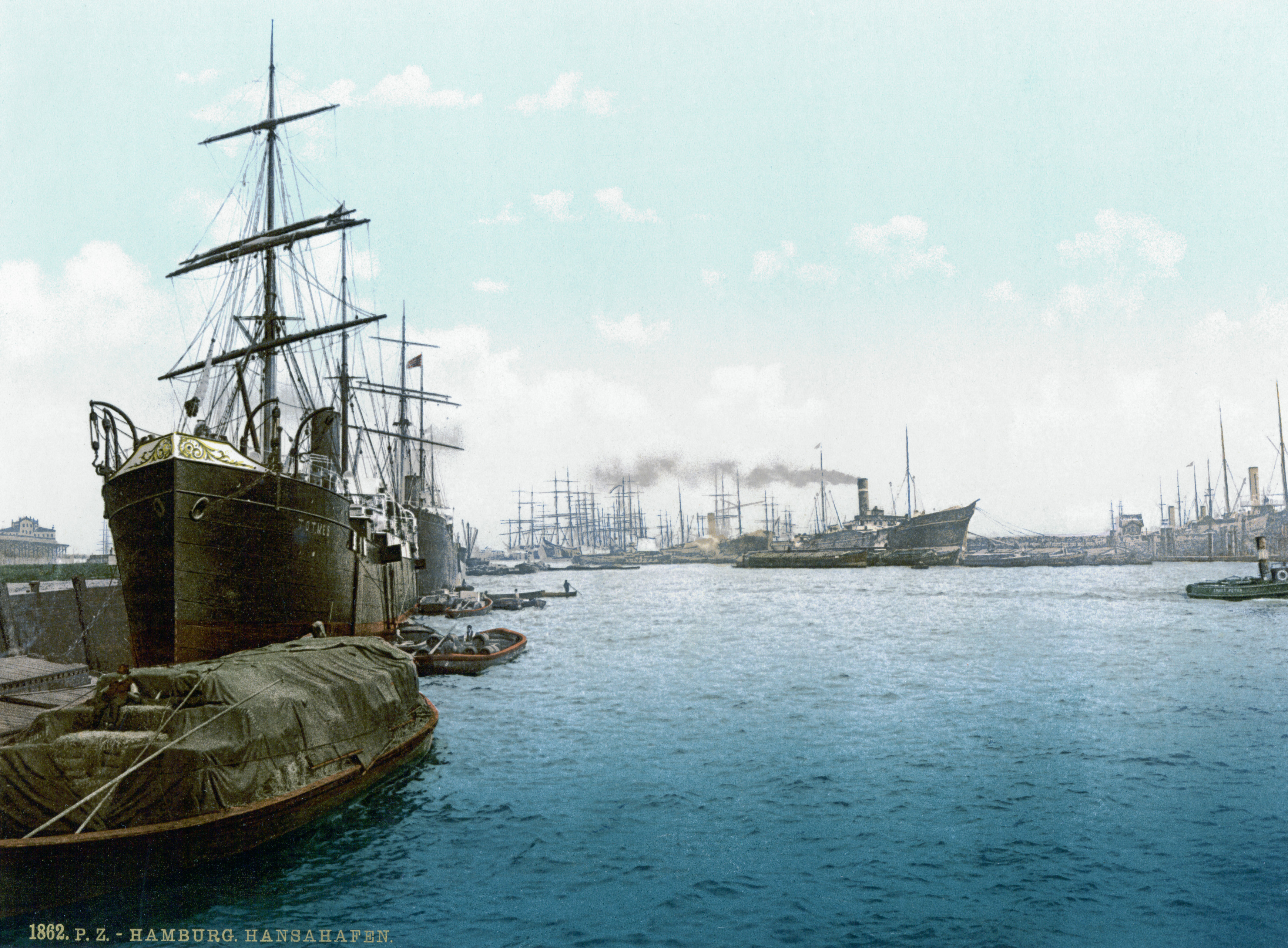 Ships in the Harbor, Hamburg, Germany' Port of Hamburg in around 1890